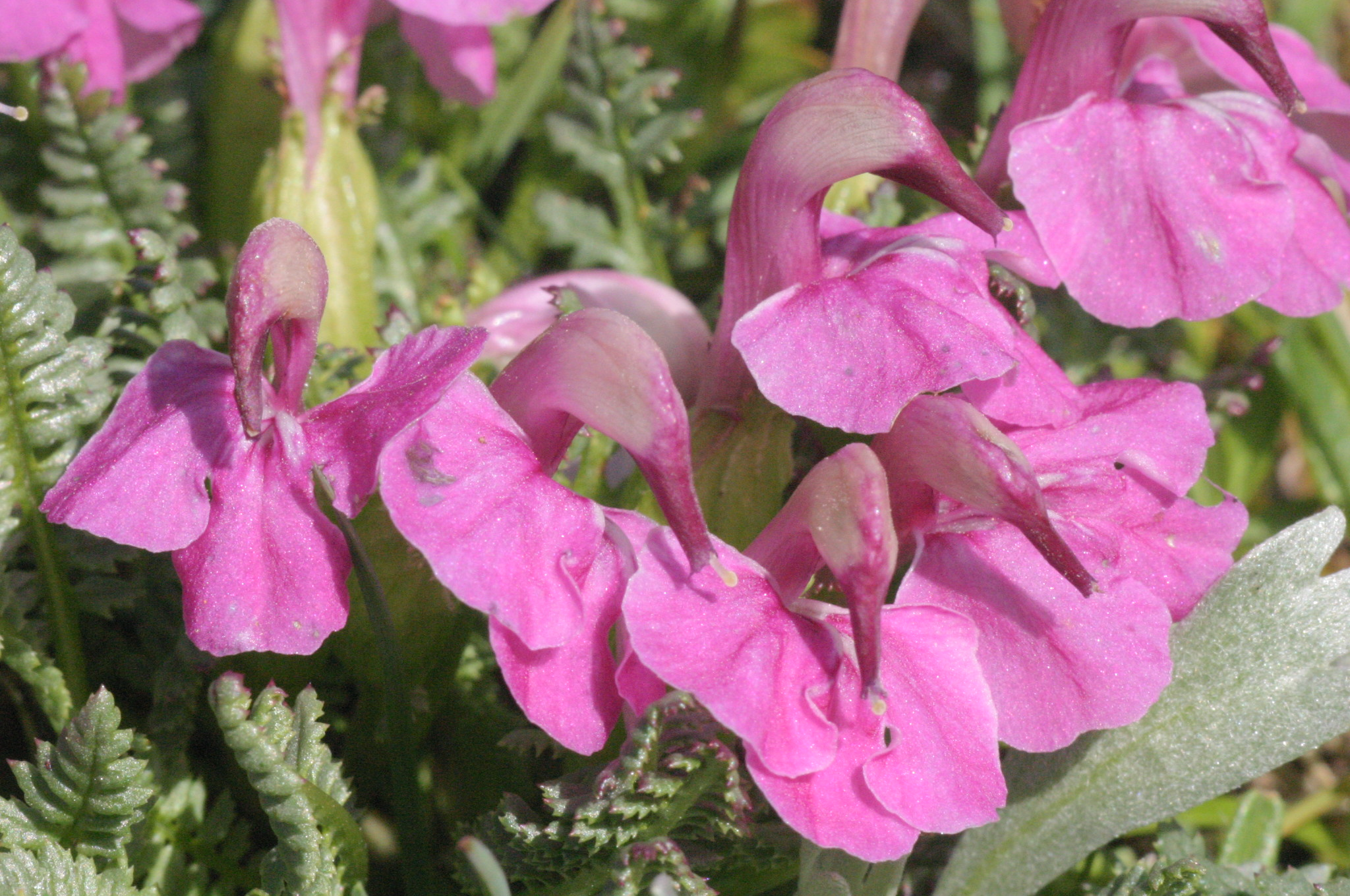 Pedicularis portenschlagii